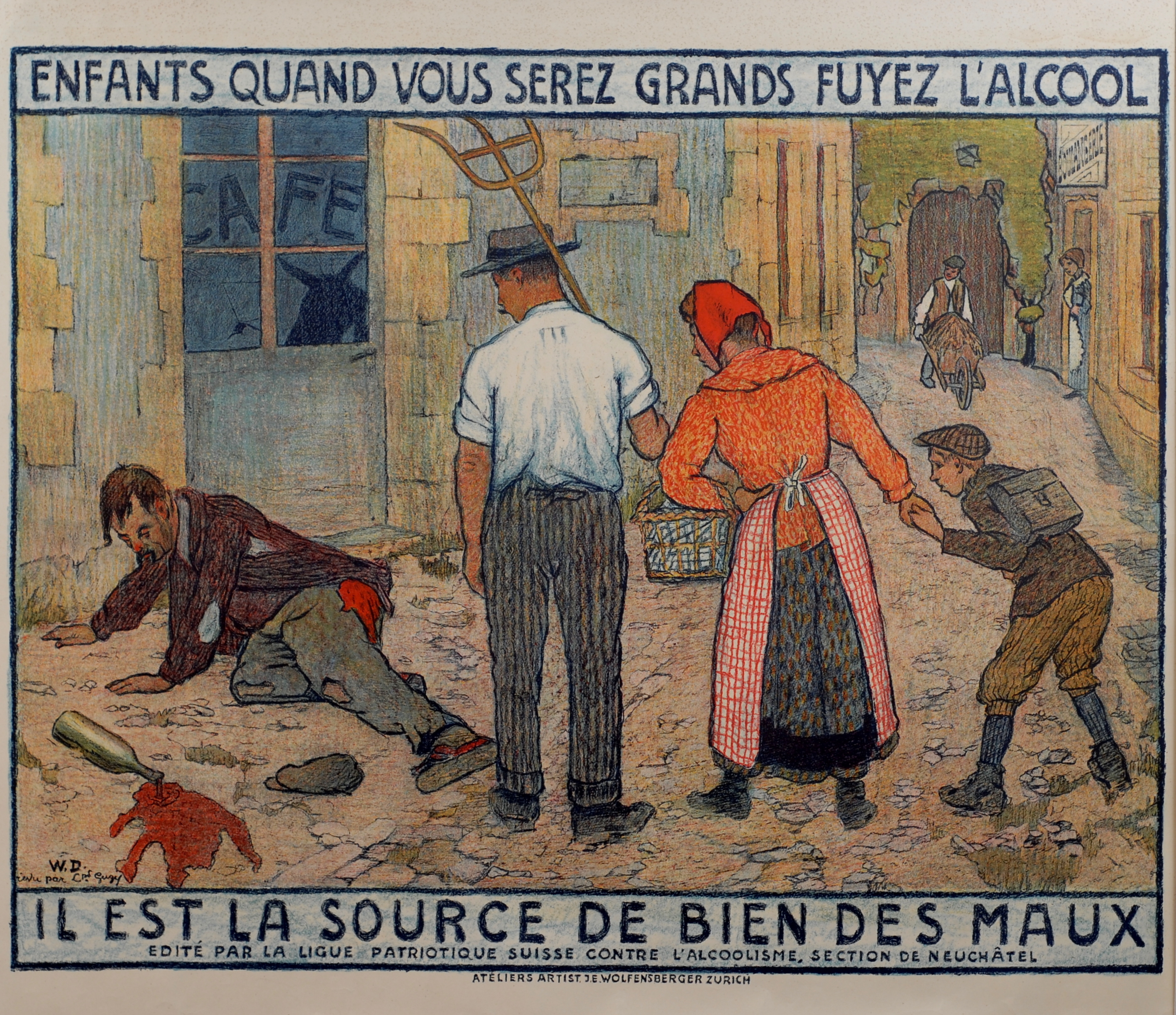 A Swiss temperance poster from La Croix-bleue, Neuchatel, circa 1900. The text on the poster is "ENFANTS QUAND VOUS SEREZ GRANDS FUYEZ L'ALCOOL IL EST LA SOURCE DE BIEN DES MAUX" which translates to "CHILDREN WHEN YOU GROW UP STAY AWAY FROM ALCOHOL IT IS THE SOURCE OF MANY TROUBLES." The poster is 88 x 110 cm. Printer: Atelier artist. J. E. Wolfensberger Zurich